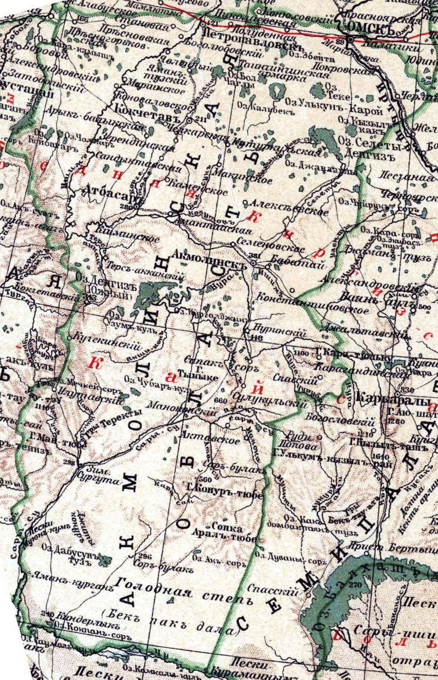 Map of Aqmola Oblast (Russian Empire) from Brockhaus and Efron Encyclopedia